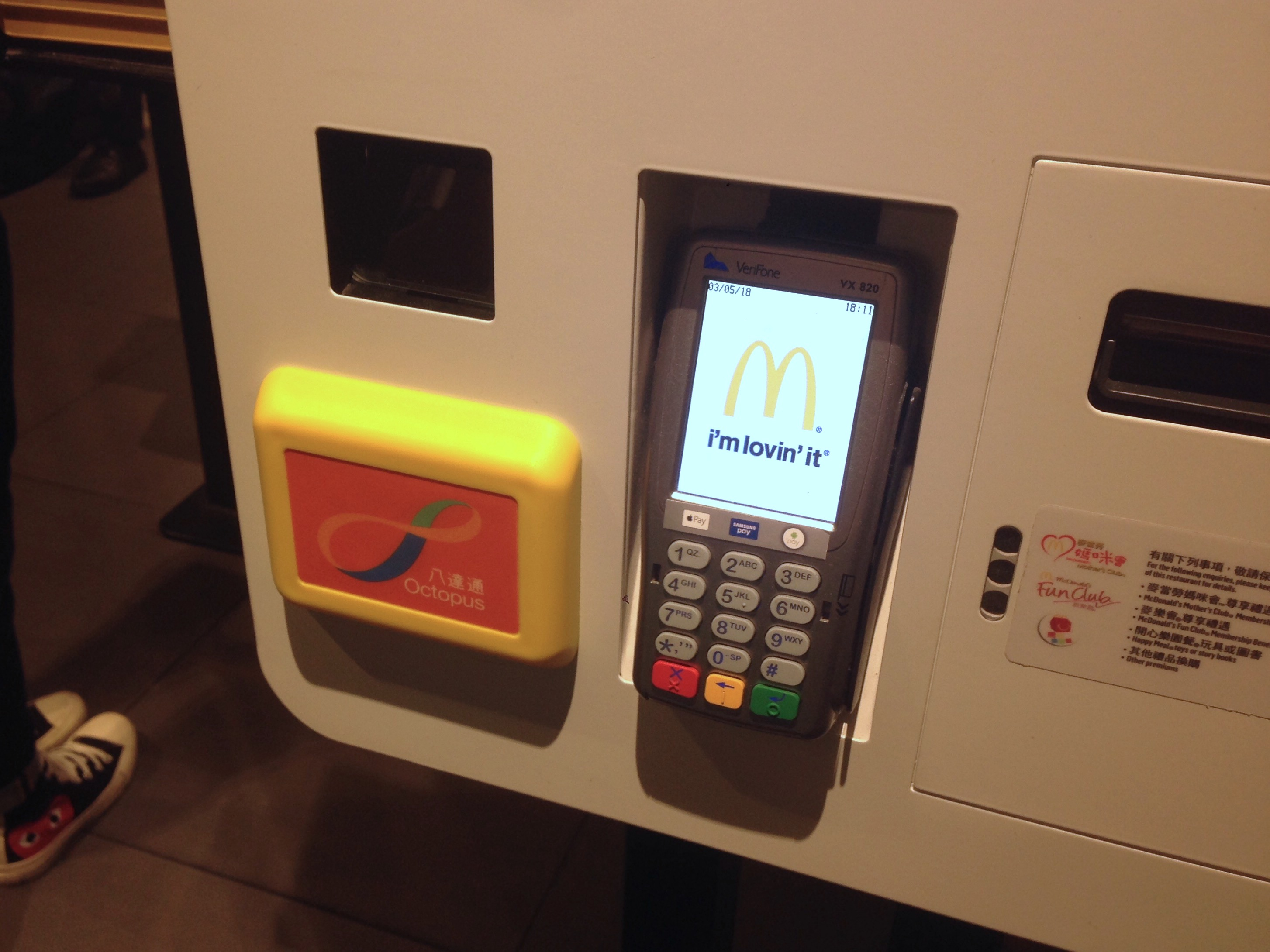 Octopus card reader and payment system captured in Hong Kong McDonalds kiosks.